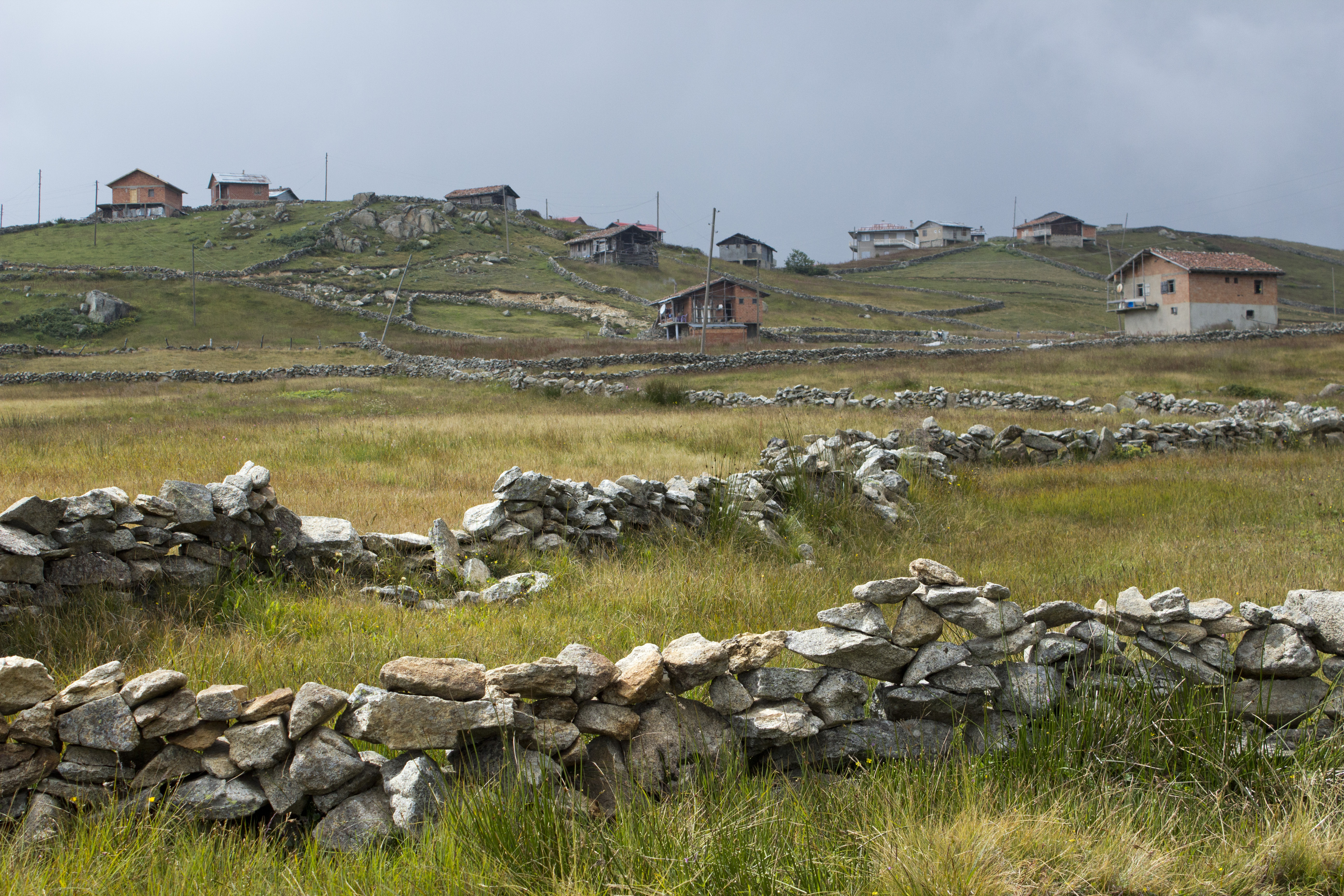 The alpine village of Cahmud in the southeast of the province Trabzon, Turkey.